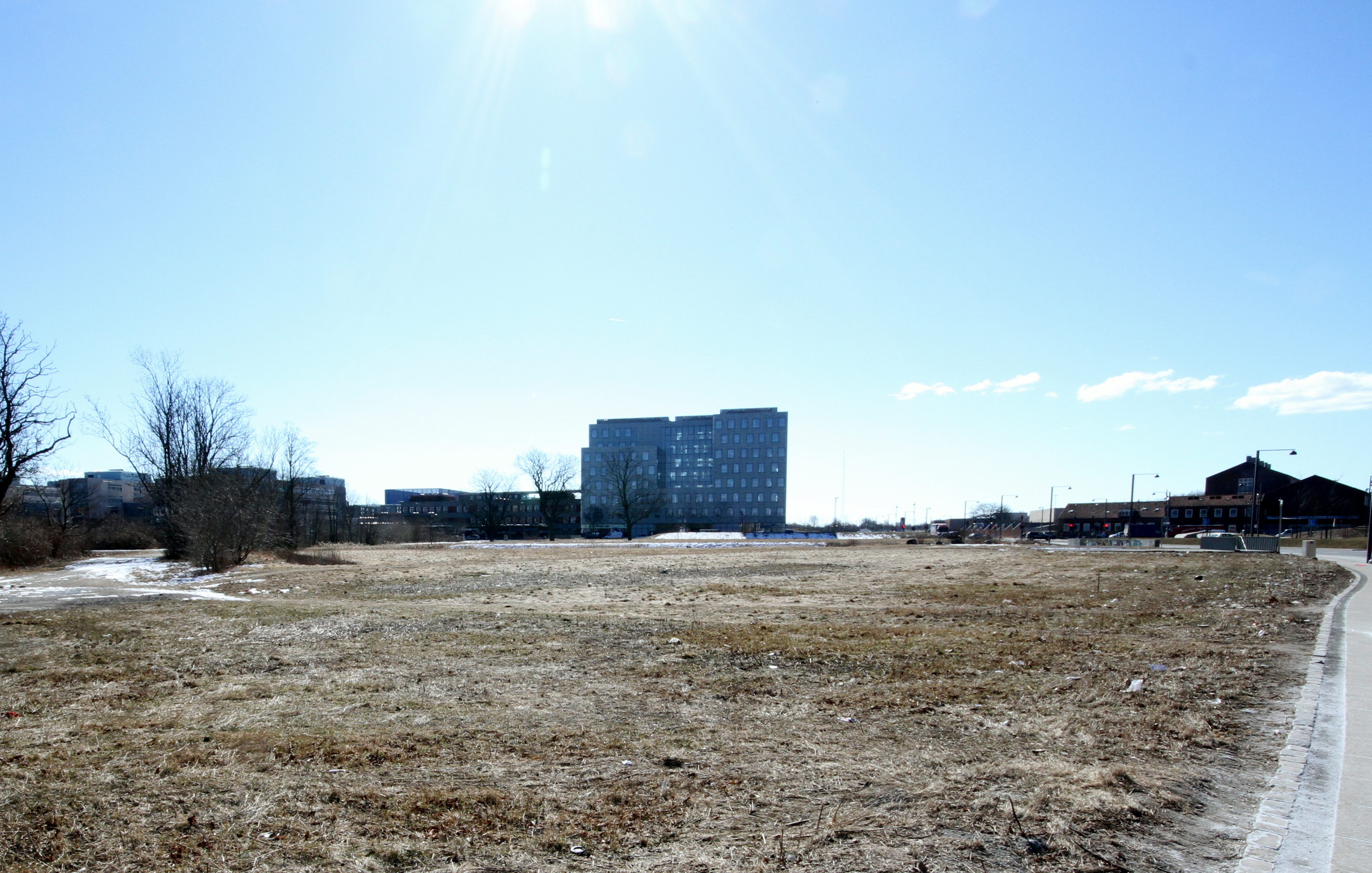 Place at Islands Brygge in Copenhagen